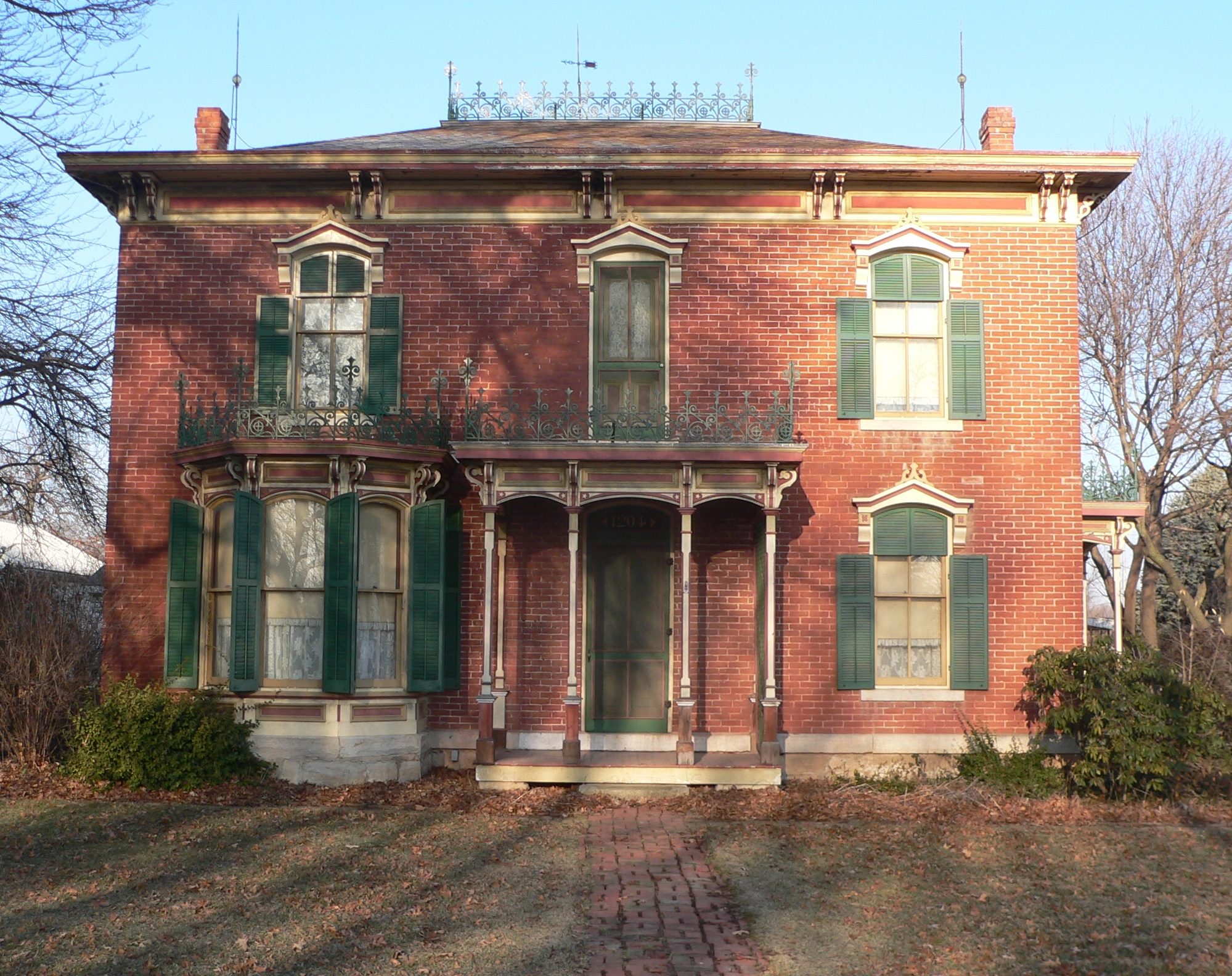 Wilber T. Reed house, located at 1204 N Street (southwest corner of N and Central Avenue) in Auburn, Nebraska; seen from the east, across N Street.